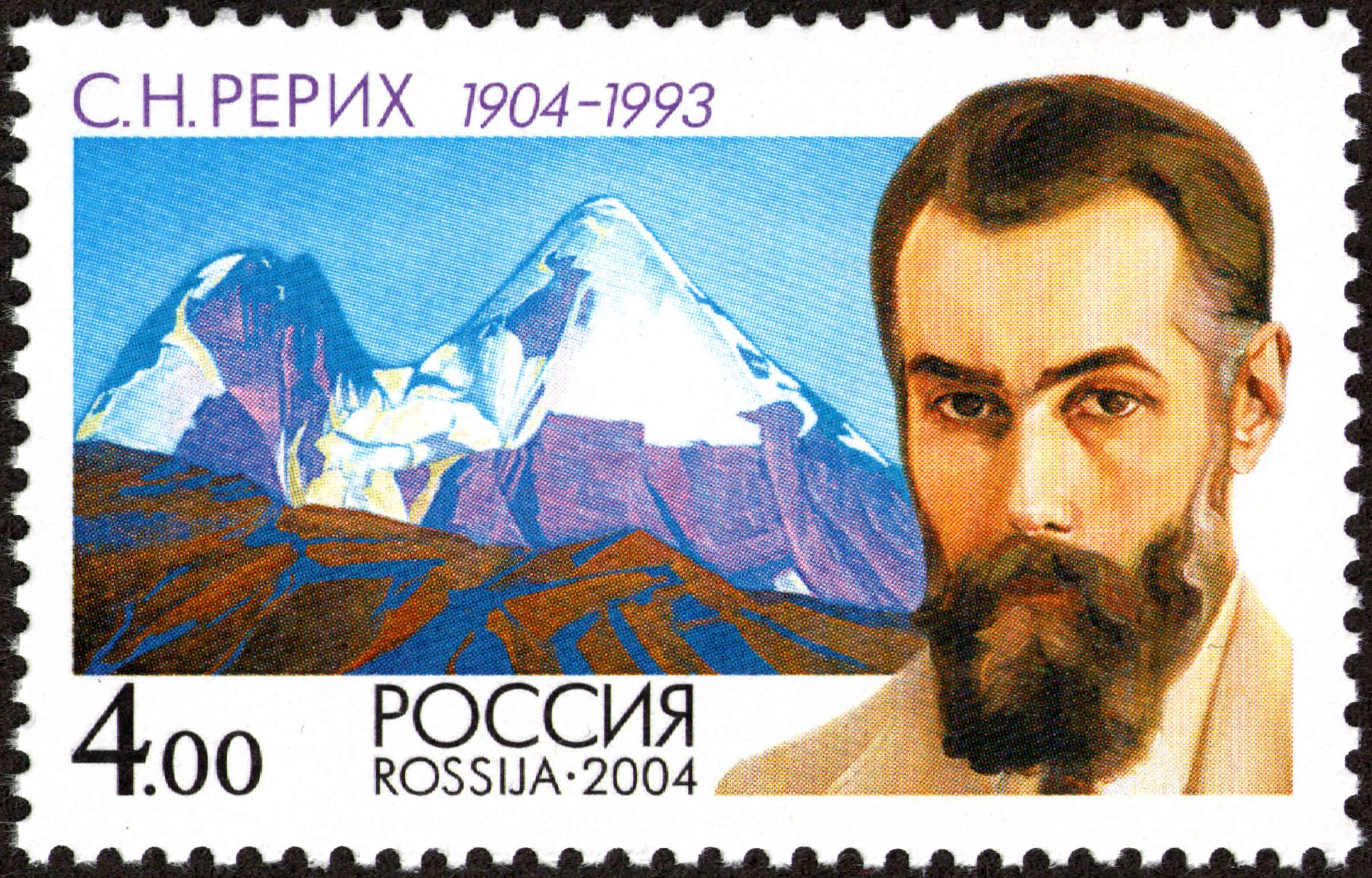 100th birth anniversary of the Russian and Indian painter, writer and scientist Svetoslav Roerich (1904—1993). The stamp of Russia, 4.00 Rubles, 16 September 2004, PTC Marka Catalogue No 977, Michel No 1209, Scott No 6865.The self-portrait of Svetoslav Roerich (undated) against the background of his painting The Two Alps. Gepang (1934).